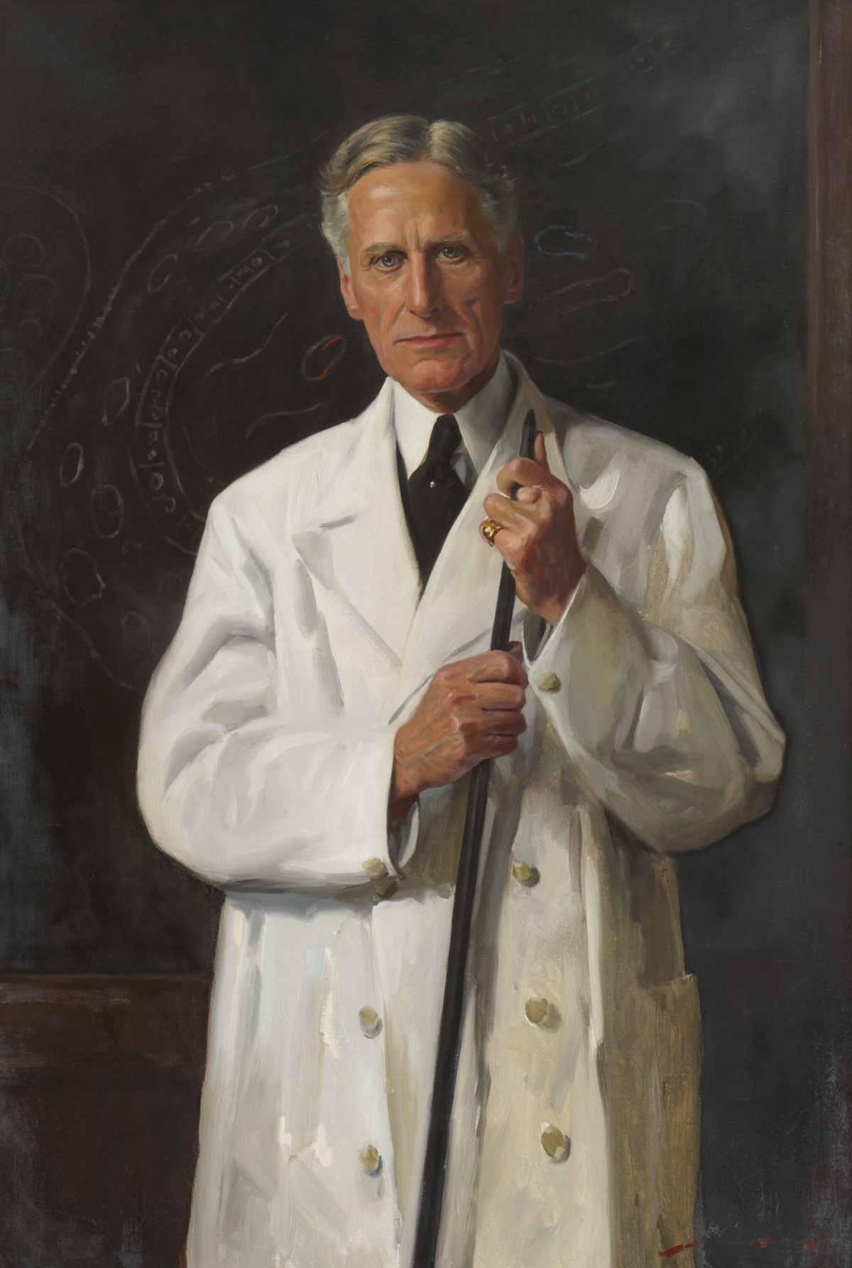 Portrait of William Blair Bell (1871-1936). Copy of portrait at the Royal College of Obstetricians and Gynaecologists